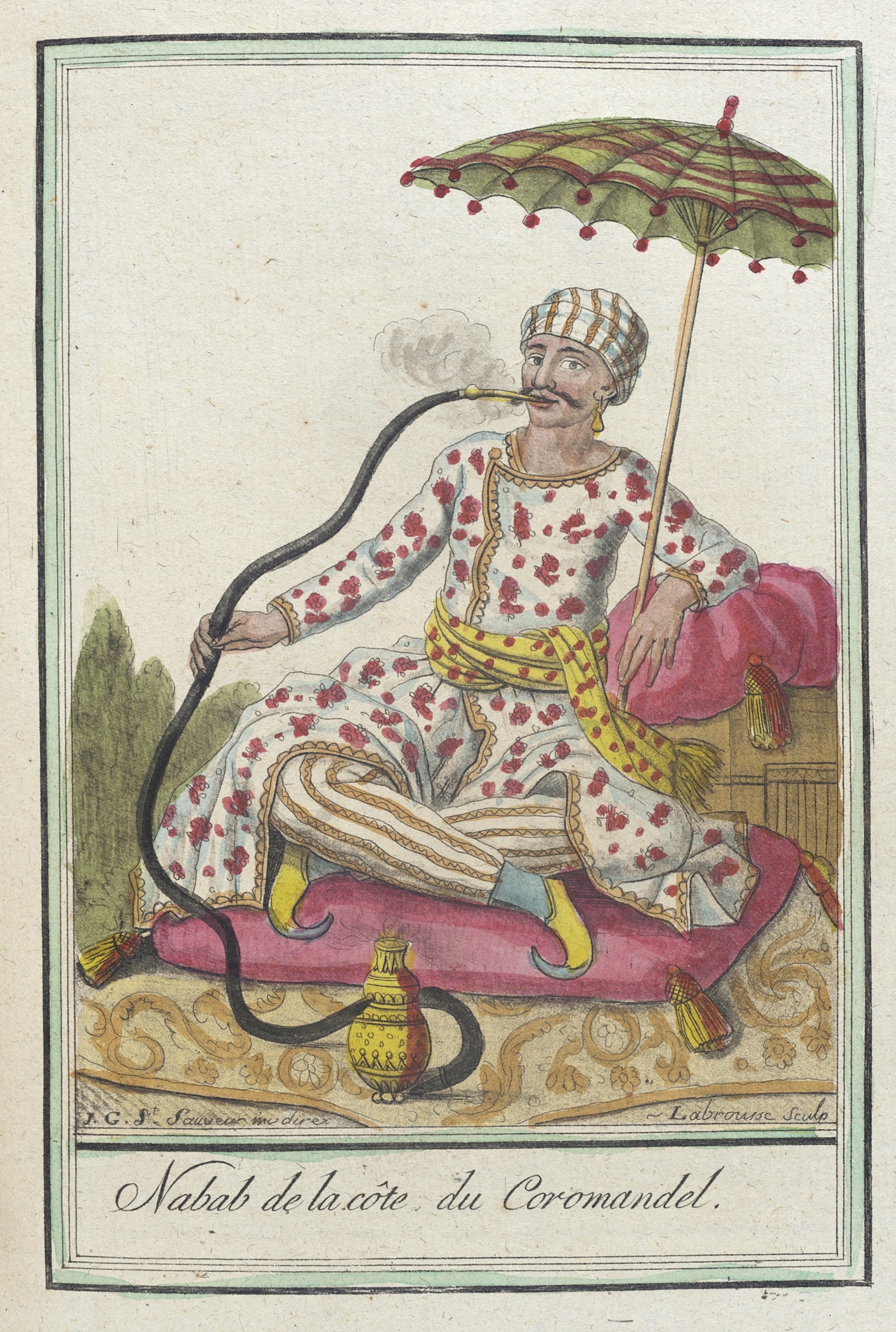 France, circa 1797 Prints; engravings Hand-tinted engraving on paper Sheet: 10 1/8 x 7 3/4 in. (25.72 x 19.69 cm); Composition: 8 1/8 x 5 5/8 in. (20.64 x 14.29 cm) Costume Council Fund (M.83.190.199) Costume and Textiles